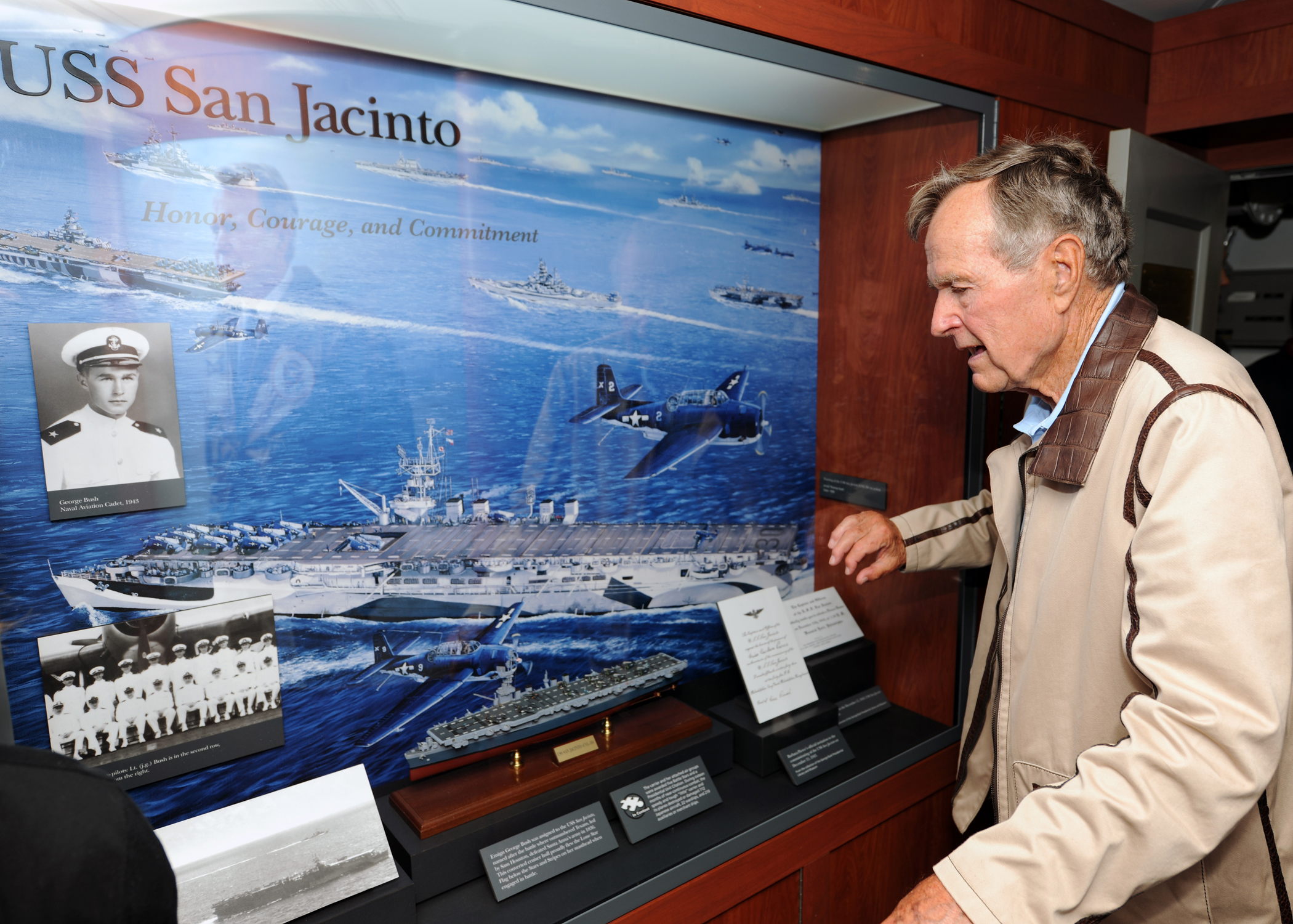 ATLANTIC OCEAN (July 15, 2010) Former President George H.W. Bush looks at a display of his former ship, the aircraft carrier USS San Jacinto (CVL 30), in the tribute room of the aircraft carrier that bears his name, USS George H.W. Bush (CVN 77). Bush and his wife, Barbara, spent their time aboard watching flight operations, touring the ship and visiting with the crew. George H.W. Bush is conducting training in the Atlantic Ocean. (U.S. Navy photo by Mass Communication Specialist 3rd Class Nicholas Hall/Released)